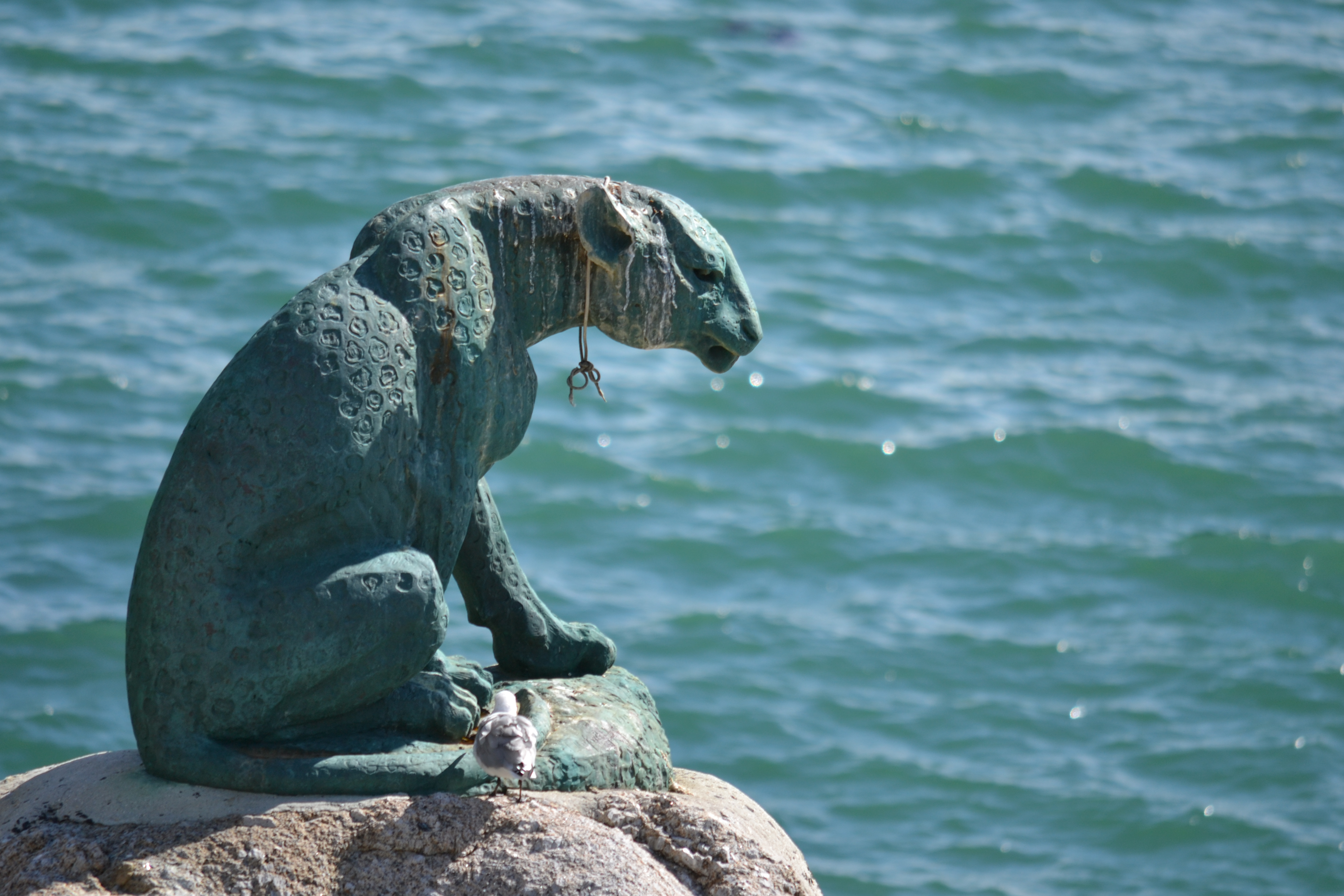 Hout Bay, Western Cape.